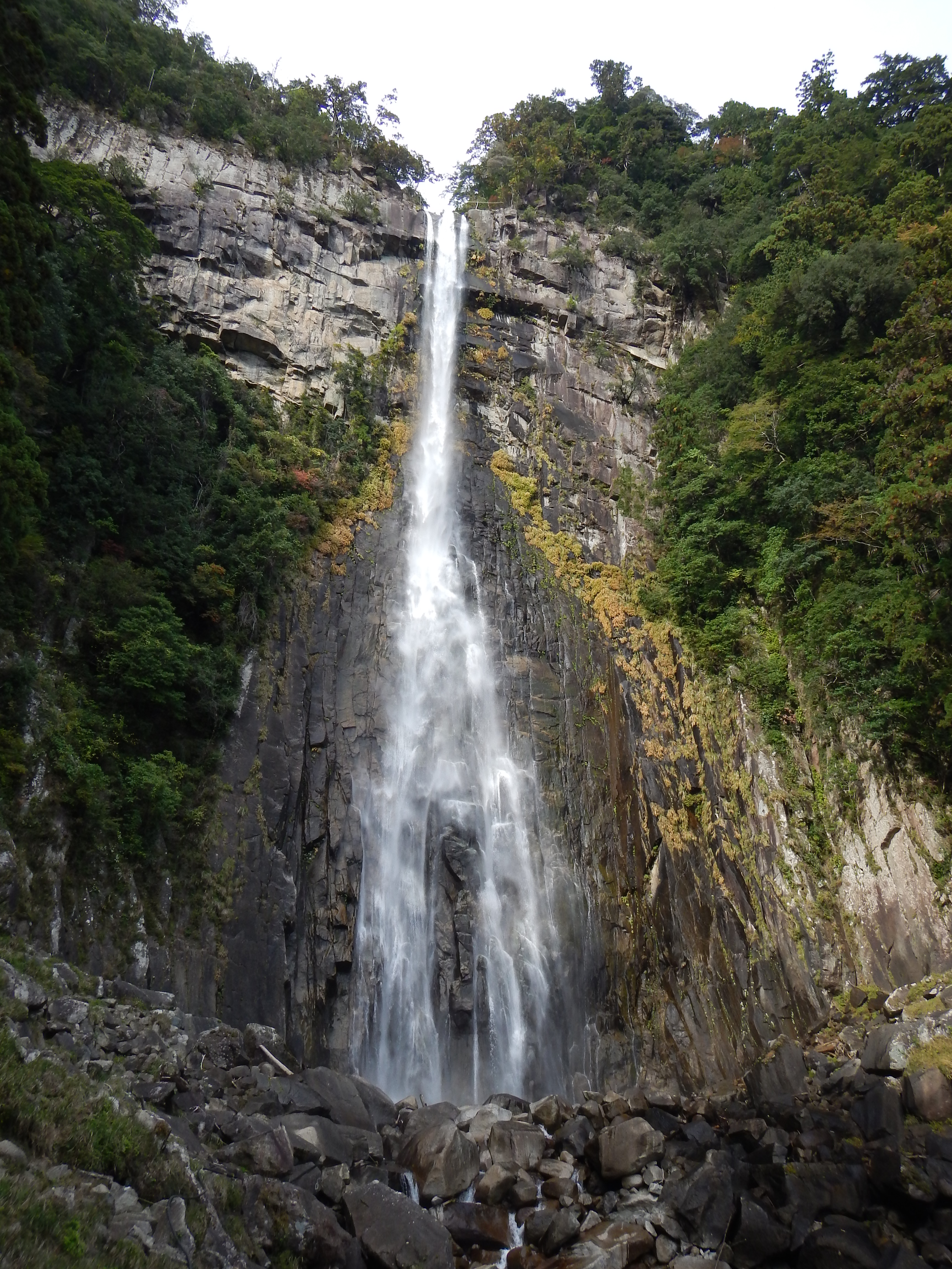 Kumano Kodo World heritage Nachi-no-taki 熊野古道 那智大滝